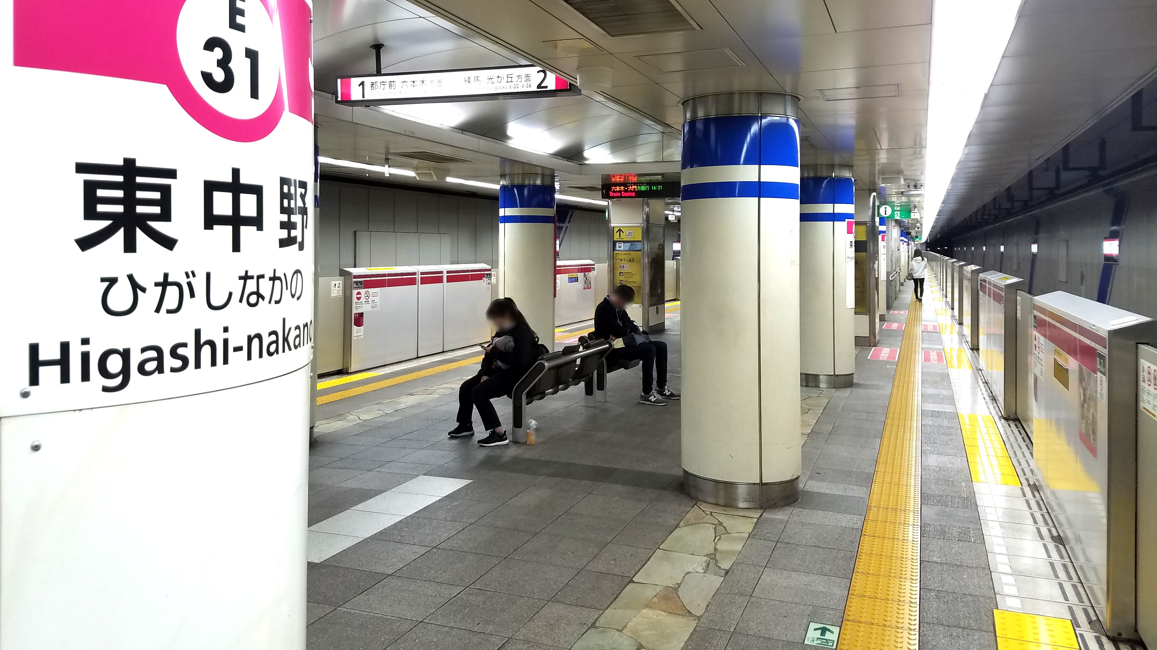 The platform at Higashi-Nakano Station on the Toei Ōedo Line in Nakano city, Tokyo, Japan